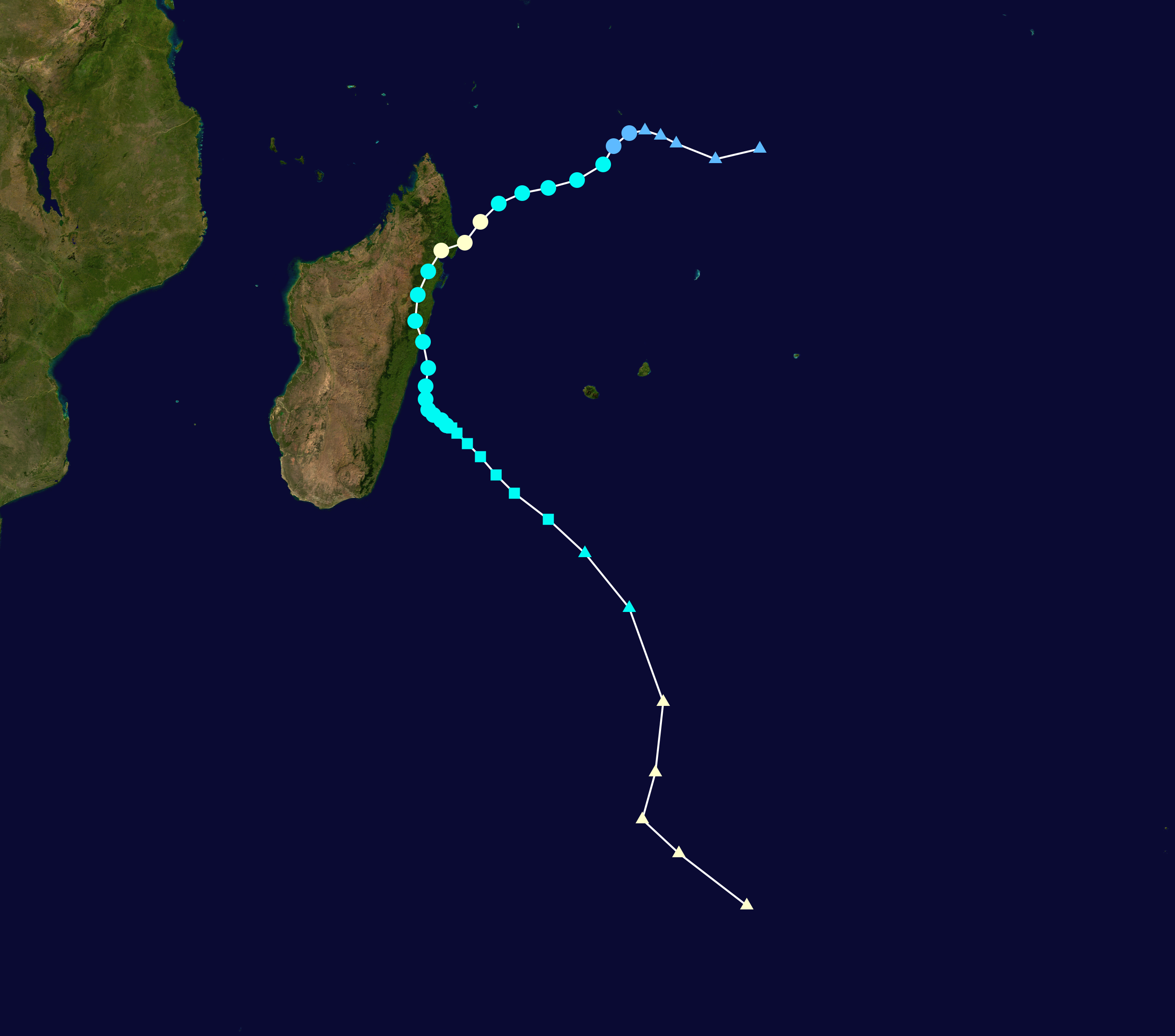 Track map of Severe Tropical Storm Jade of the 2008-09 South West Indian Ocean cyclone season. The points show the location of the storm at 6-hour intervals. The colour represents the storm's maximum sustained wind speeds as classified in the Saffir–Simpson scale (see below), and the shape of the data points represent the nature of the storm, according to the legend below. Saffir–Simpson scale Tropical depression≤38 mph≤62 km/h Category 3111–129 mph178–208 km/h Tropical storm39–73 mph63–118 km/h Category 4130–156 mph209–251 km/h Category 174–95 mph119–153 km/h Category 5≥157 mph≥252 km/h Category 296–110 mph154–177 km/h Unknown Storm type Tropical cyclone Subtropical cyclone Extratropical cyclone / Remnant low / Tropical disturbance / Monsoon depression